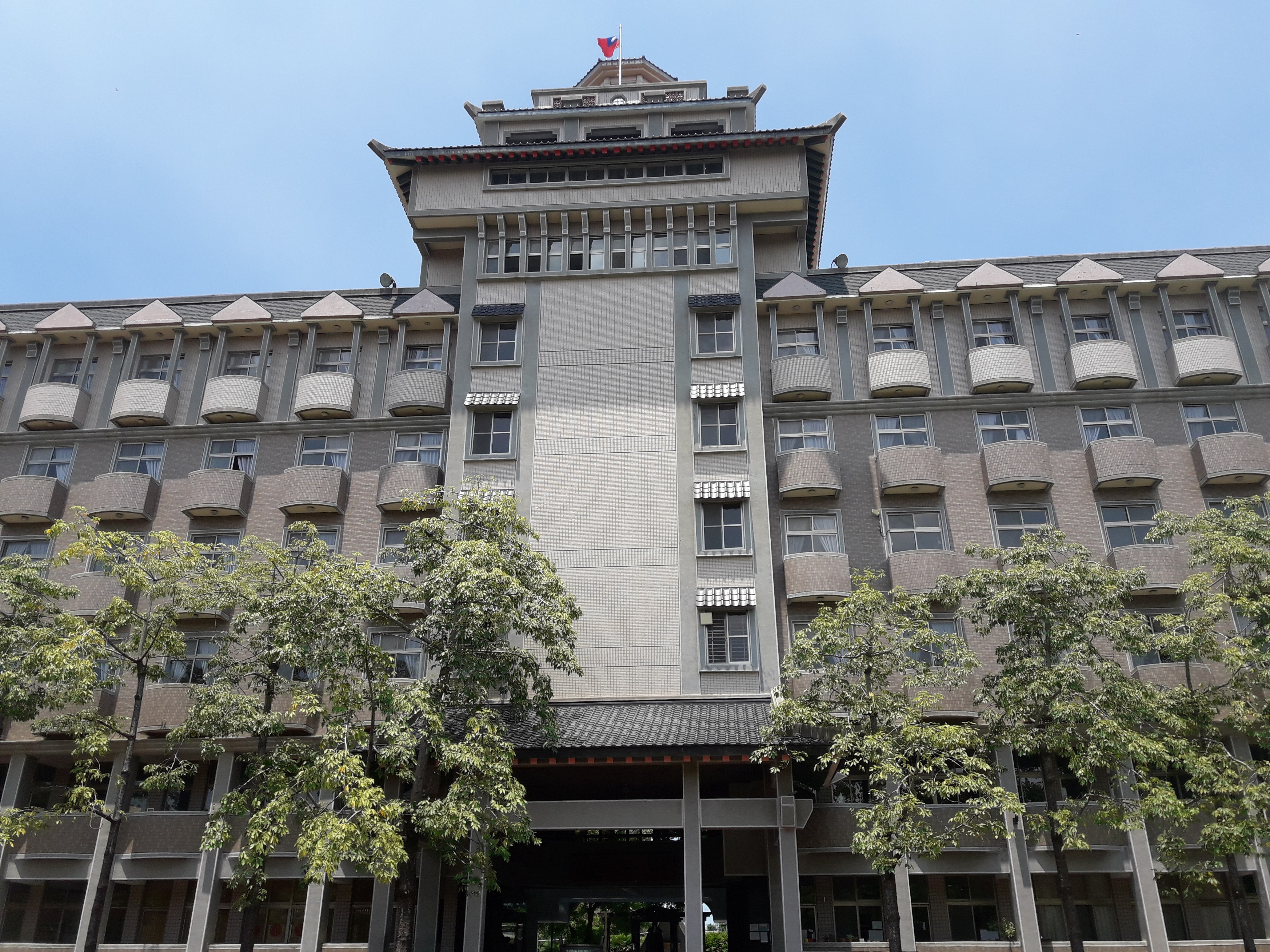 The Zhongxing Building(中興樓) of Dongnan Junior High School.